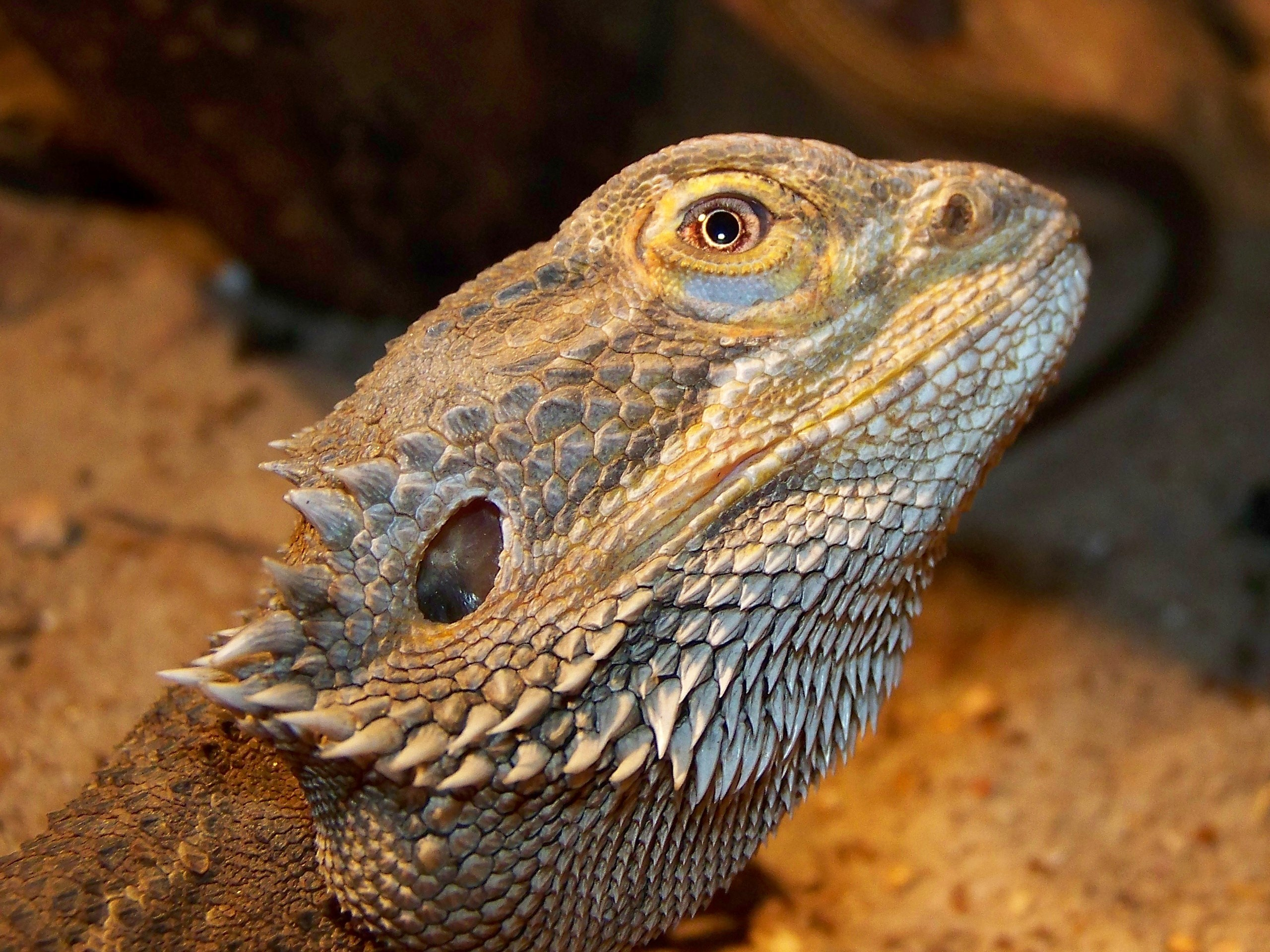 Pogona vitticeps - Bearded Dragon - male